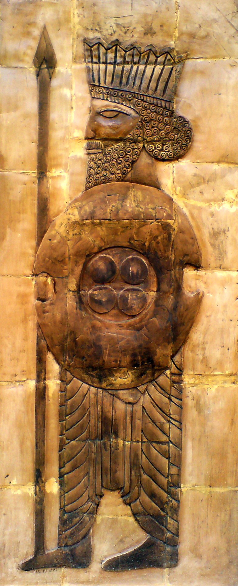 Achaemenid Spear-aegises Soldier statue on a residental apartment wall - Nishapur